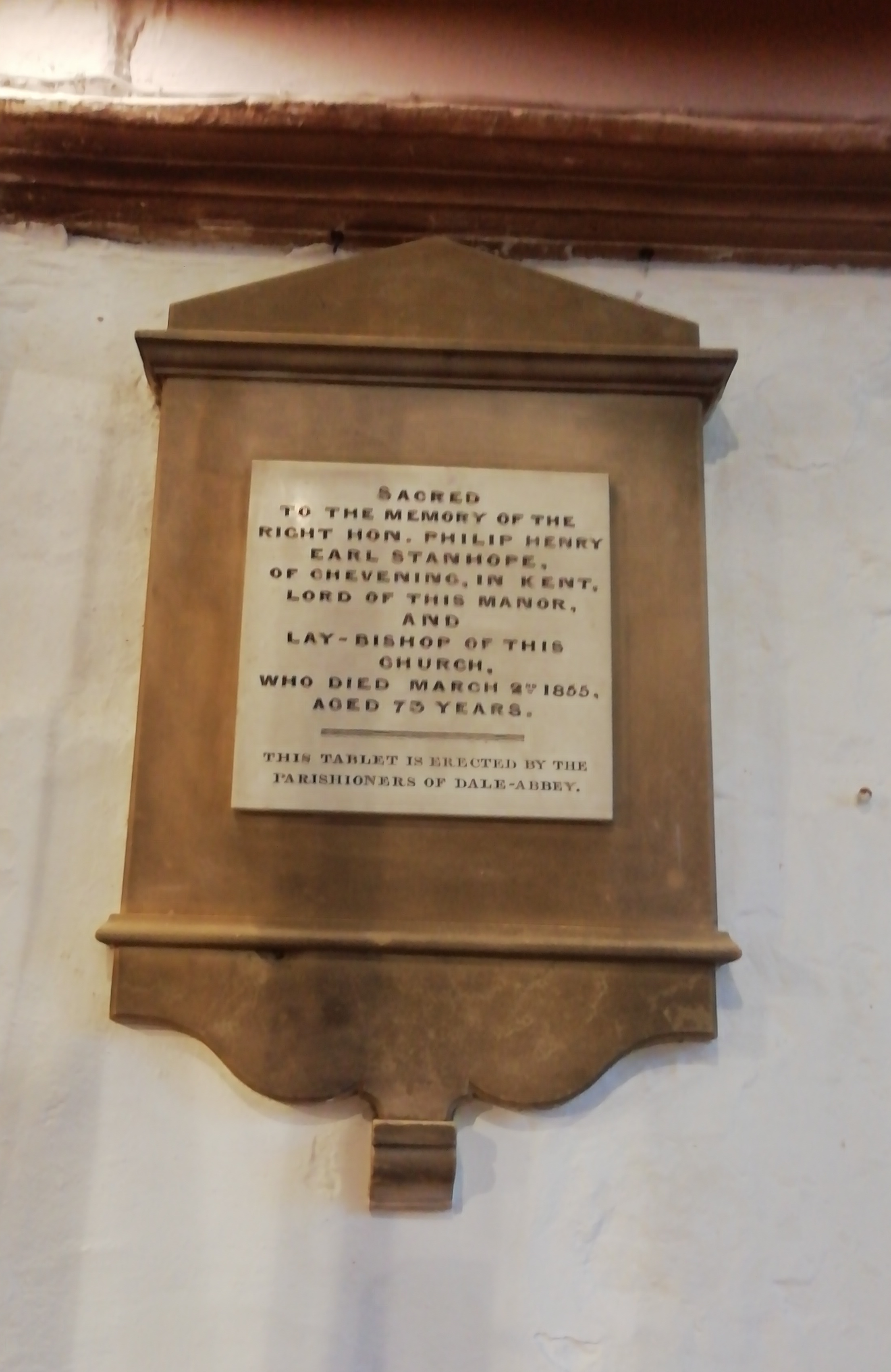 Memorial to 4th Earl Stanhope, lord of the manor and lay bishop of Dale Abbey. All Saints' Church, north wall.